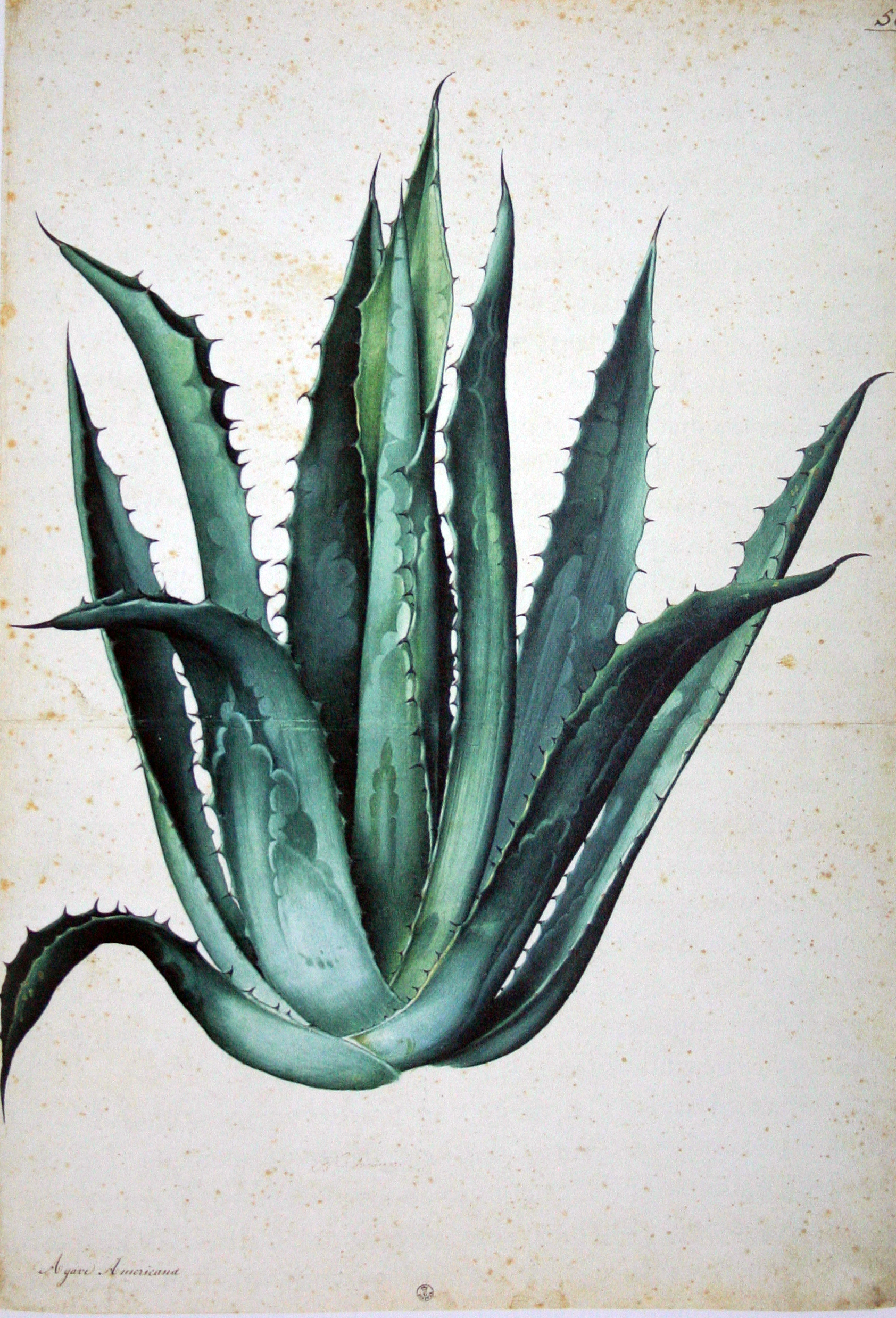 Agave americana from a series of paintings done for Francesco I de' Medici